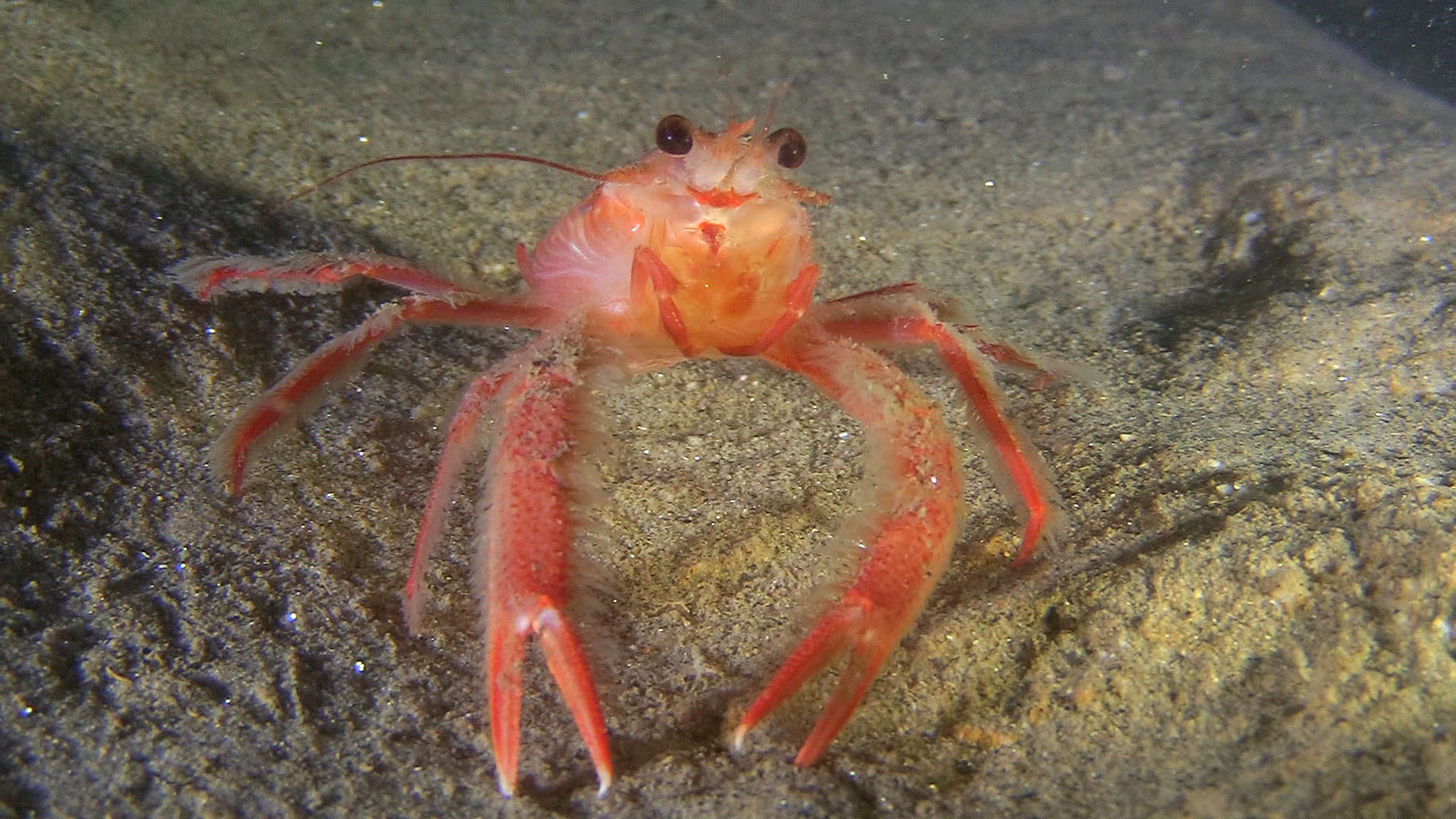 Pleuroncodes Planipes, La Jolla CA, March 2016